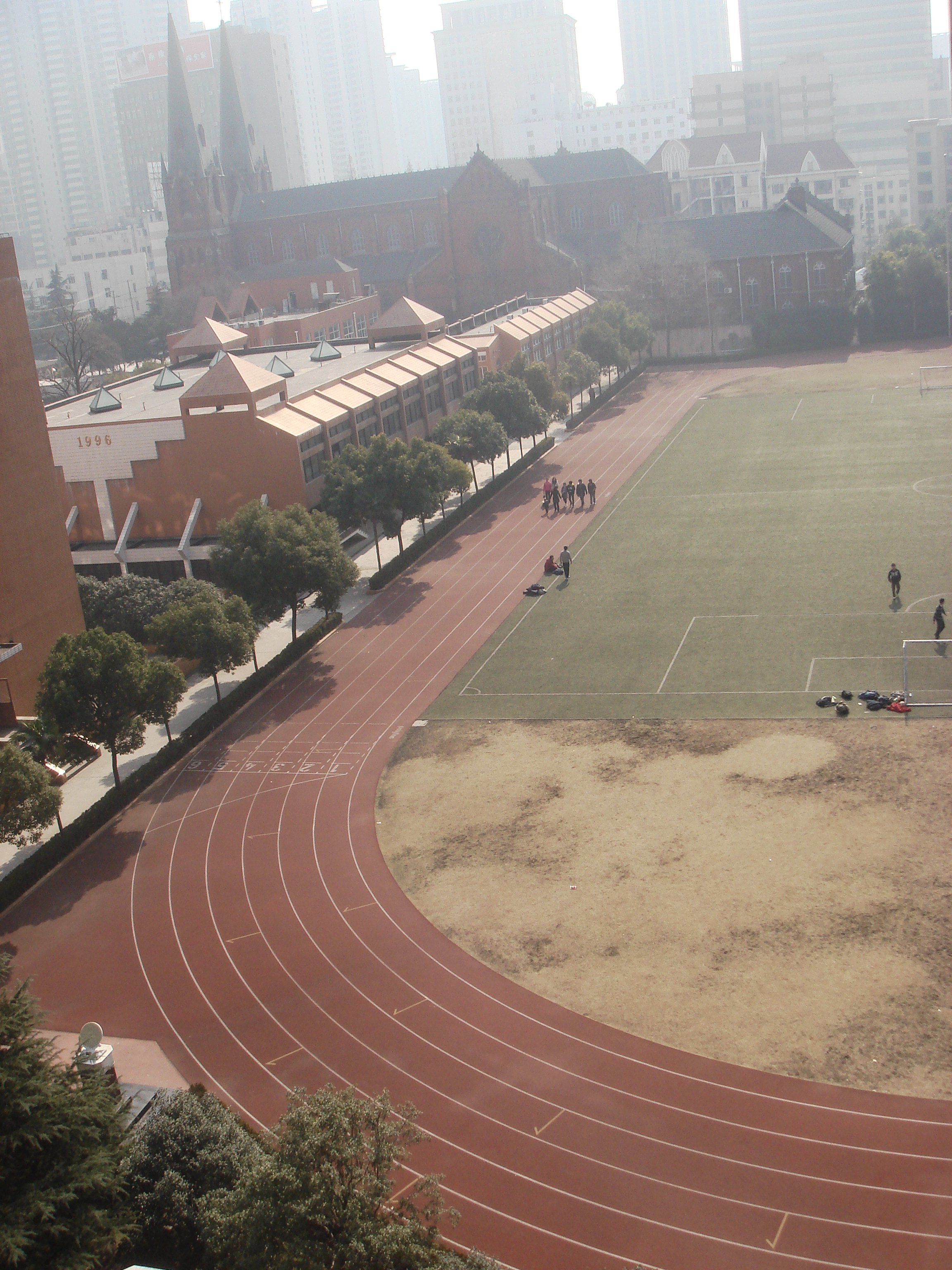 taken on Zhongde Building, Xuhui Middle School.